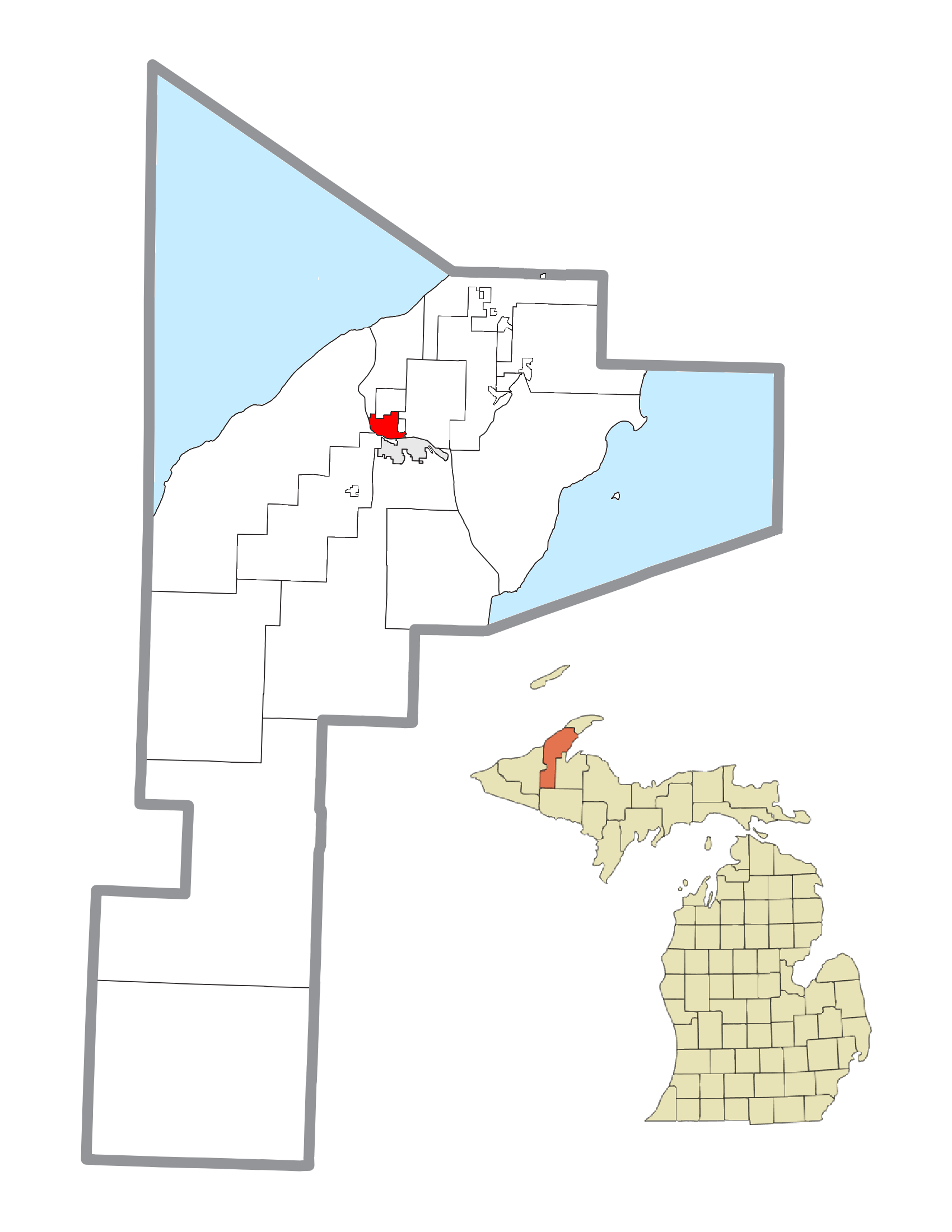 Hancock, MI